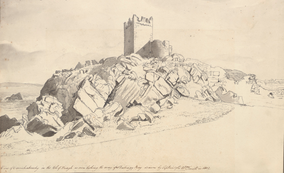 Original caption: View of Carrickbrachy in the Isle of Doagh as see looking the way of Thabragy Bay drawn by Captain Sir Wm Smith in 1802.